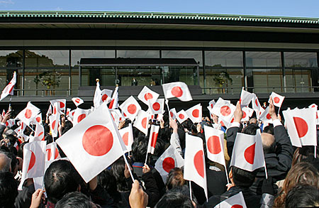 Emperor Akihito prepares to greet the crowd at the Chōwaden Reception Hall on his birthday, 23 December 2004. Imperial Palace, Tokyo.